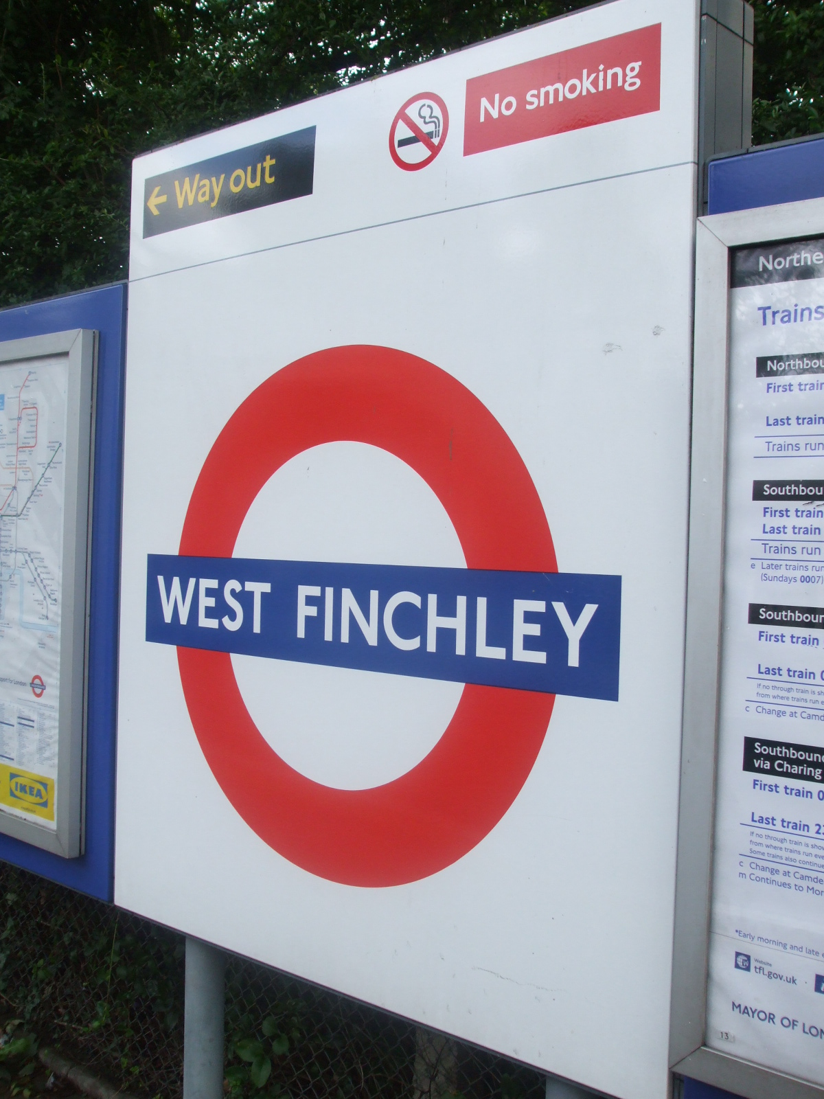 Roundel on West Finchley tube station southbound platform